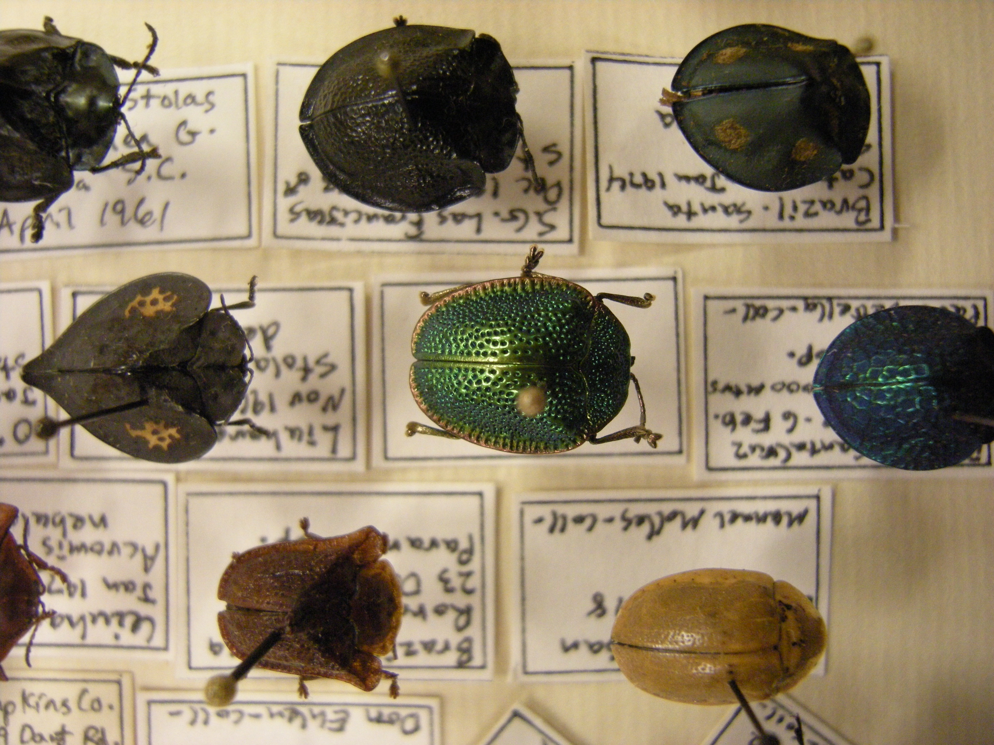 Unidentified Tortoise Beetles. Part of Don Ehlen's "Insect Safari" collection. If you know more about the individual species here, please feel free to flesh out this description.